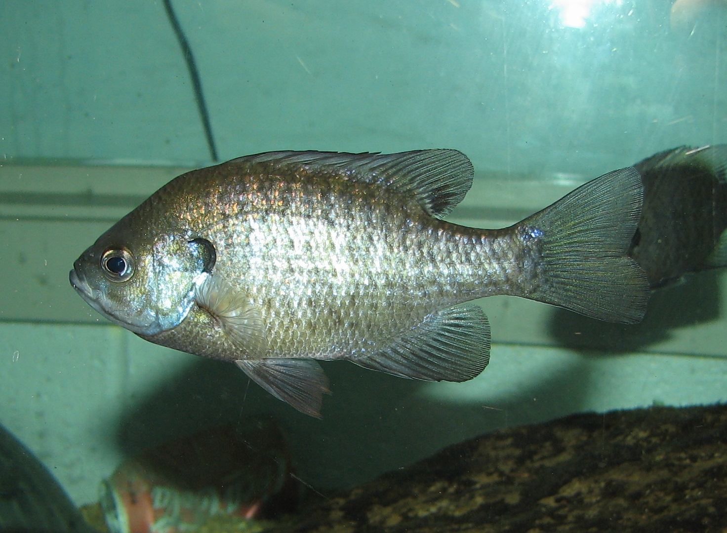 Bluegill (Lepomis_macrochirus) at Lousiville Zoo in Kentucky